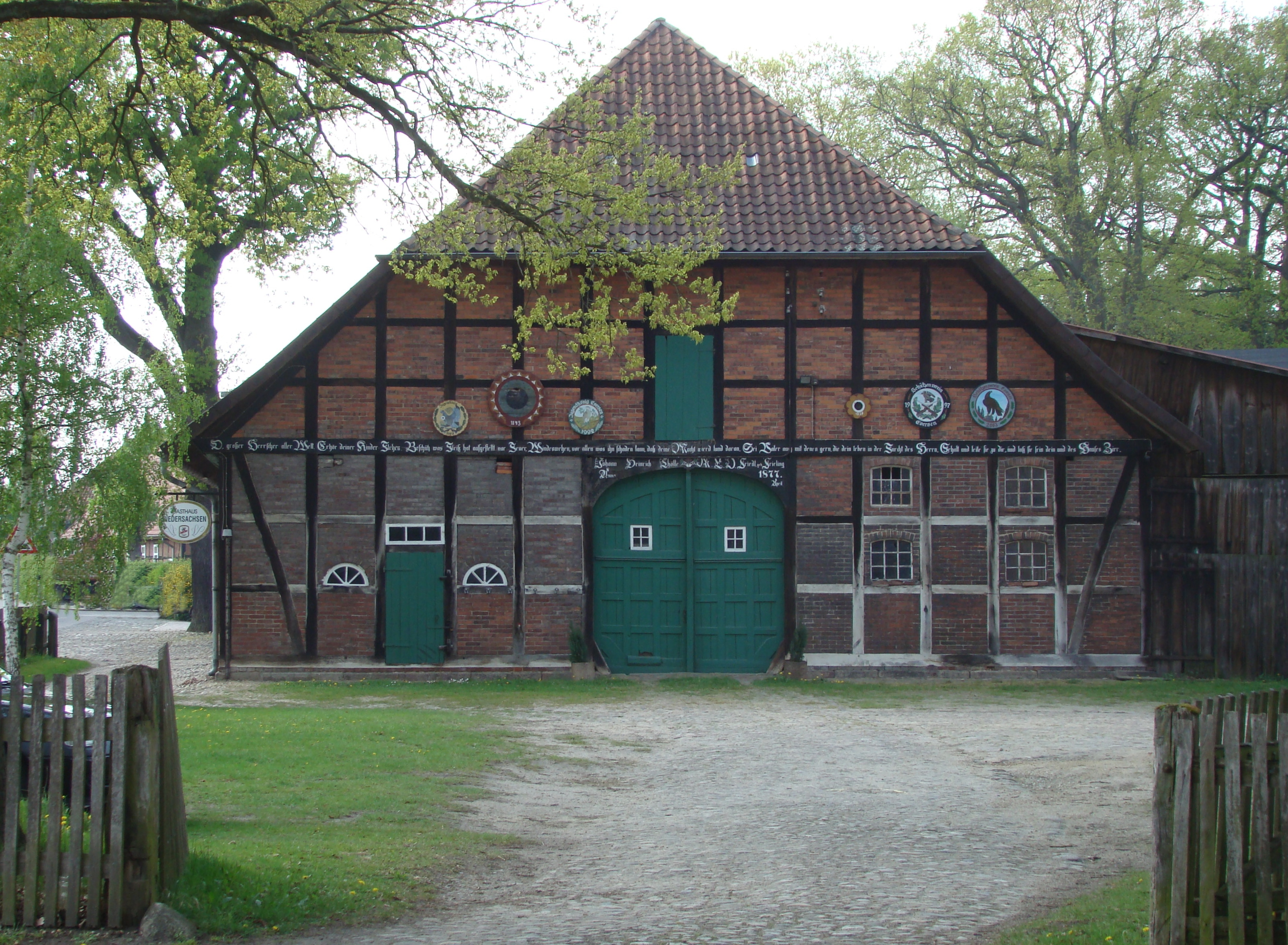 The Gasthaus Niedersachsen, scene of the German TV series, Petticoat. Located in Eversen, Germany